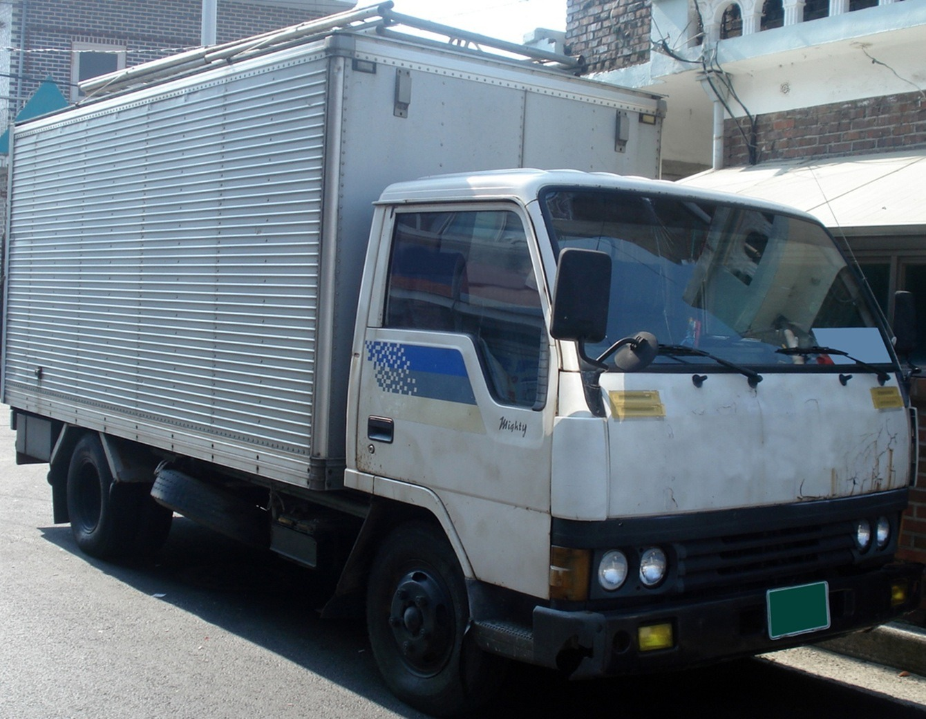 Hyundai Mighty